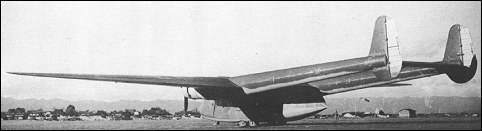 The Ki-105 Ohtori, ('Phoenix') was a desperate project fomented in the last months of the Pacific War. With Allied attacks on ports and shipping, Japan's sources of oil to fuel its defensive fighters were drying up. To meet the demand for aviation fuel, the experimental Kokusai Ku-7 transport glider was developed into a powered version for use in transporting fuel from the oilfields still held in Sumatra to Japan.